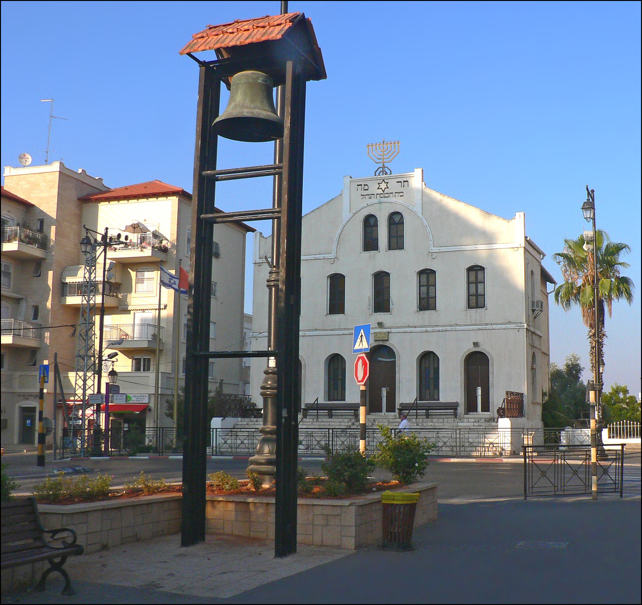 Kikar HaMeysdim and Rishon's Great Synagogue, Rishon LeZion, Israel